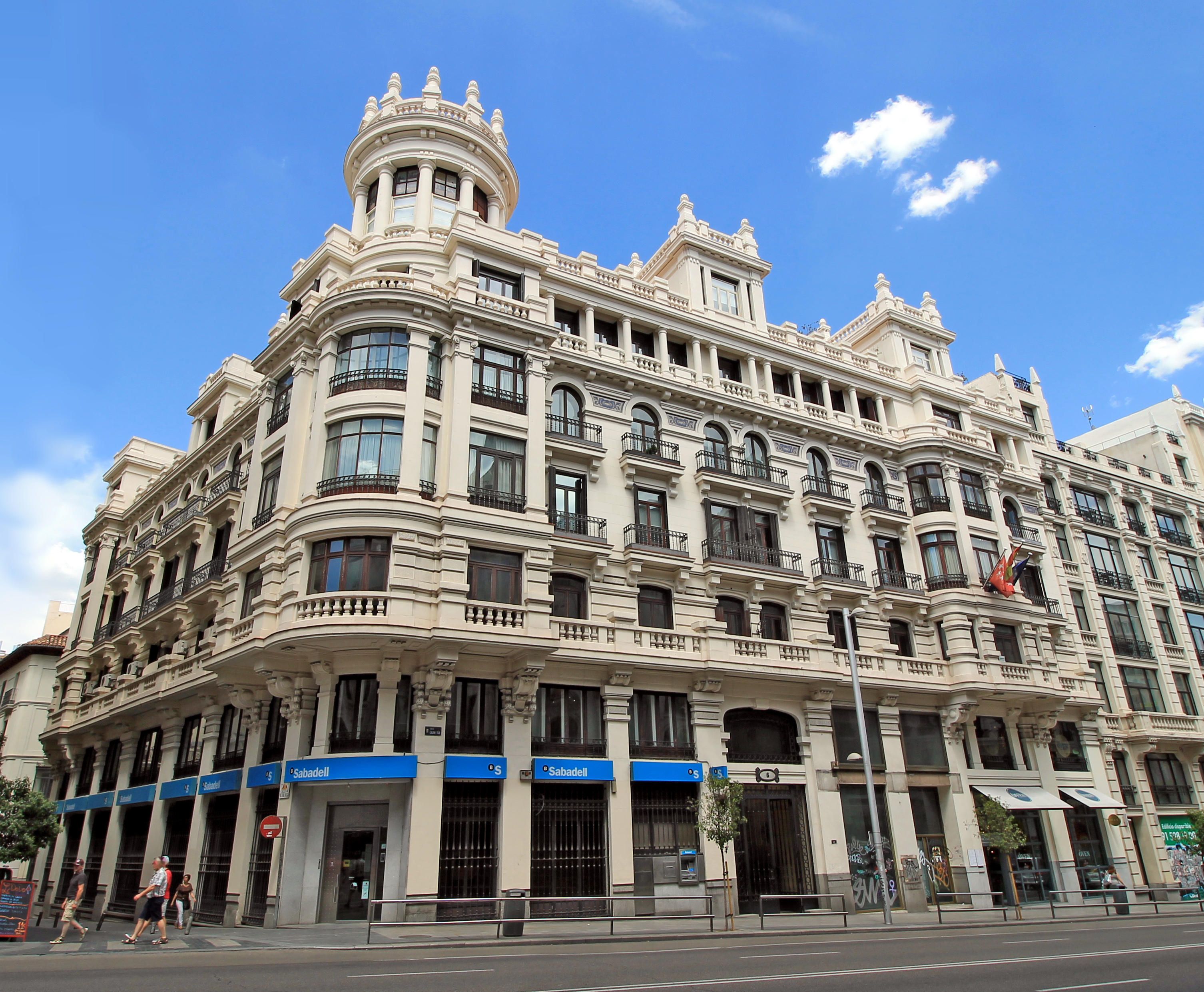 Building at 6 Gran Vía (avenue) in Madrid (Spain).